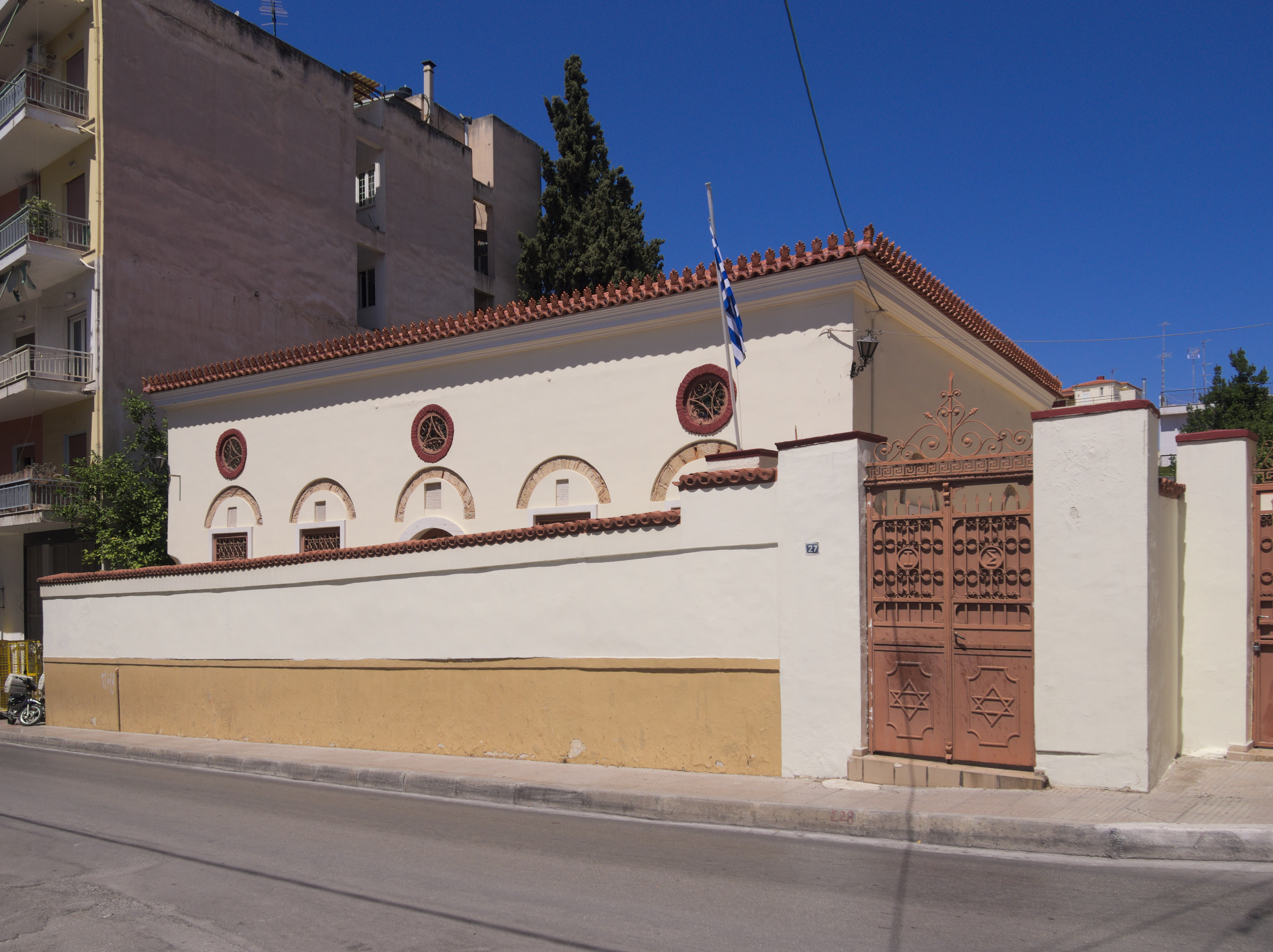 The synagogue of Chalkida